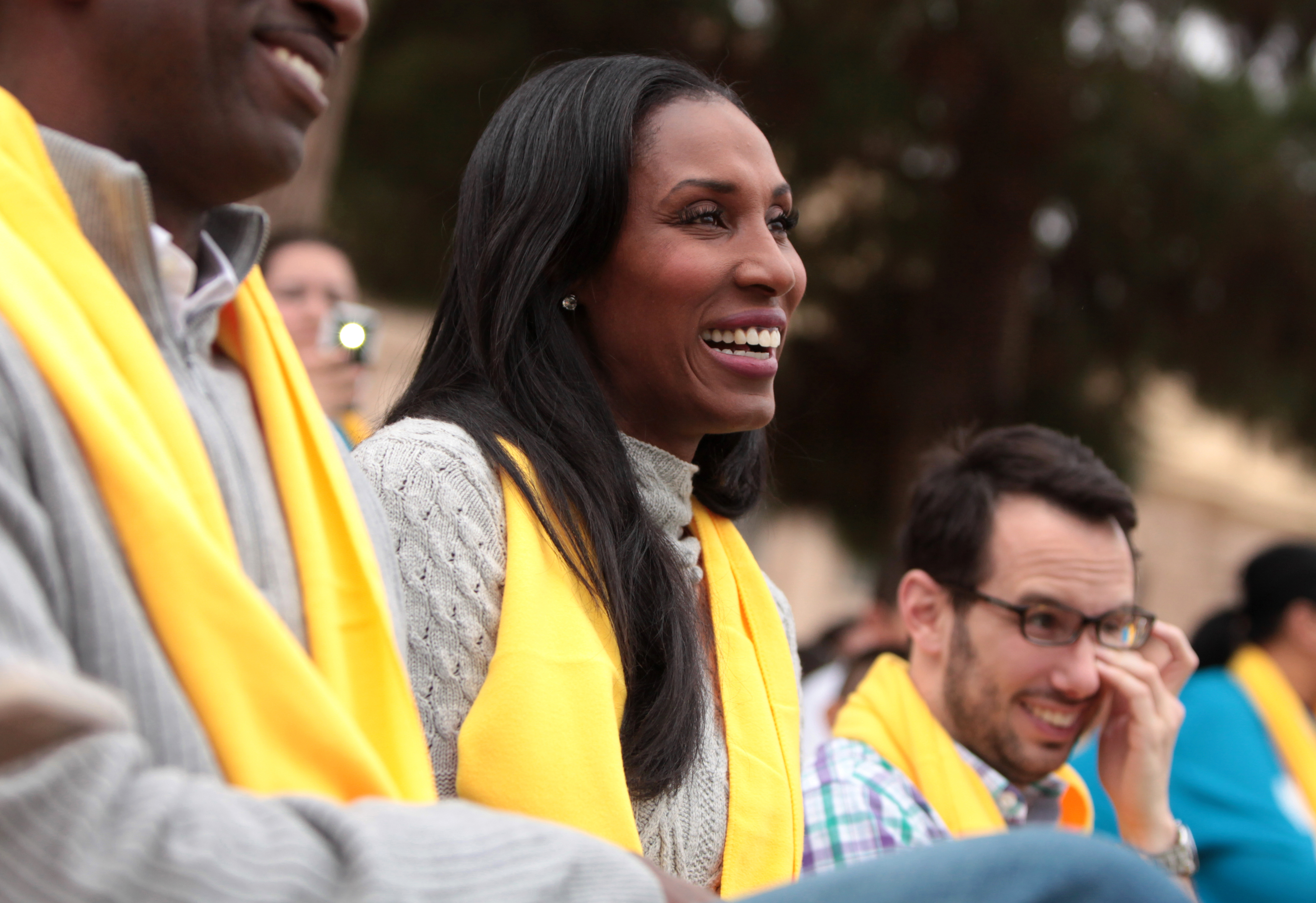 Lisa Leslie speaking at an event in Phoenix, Arizona.